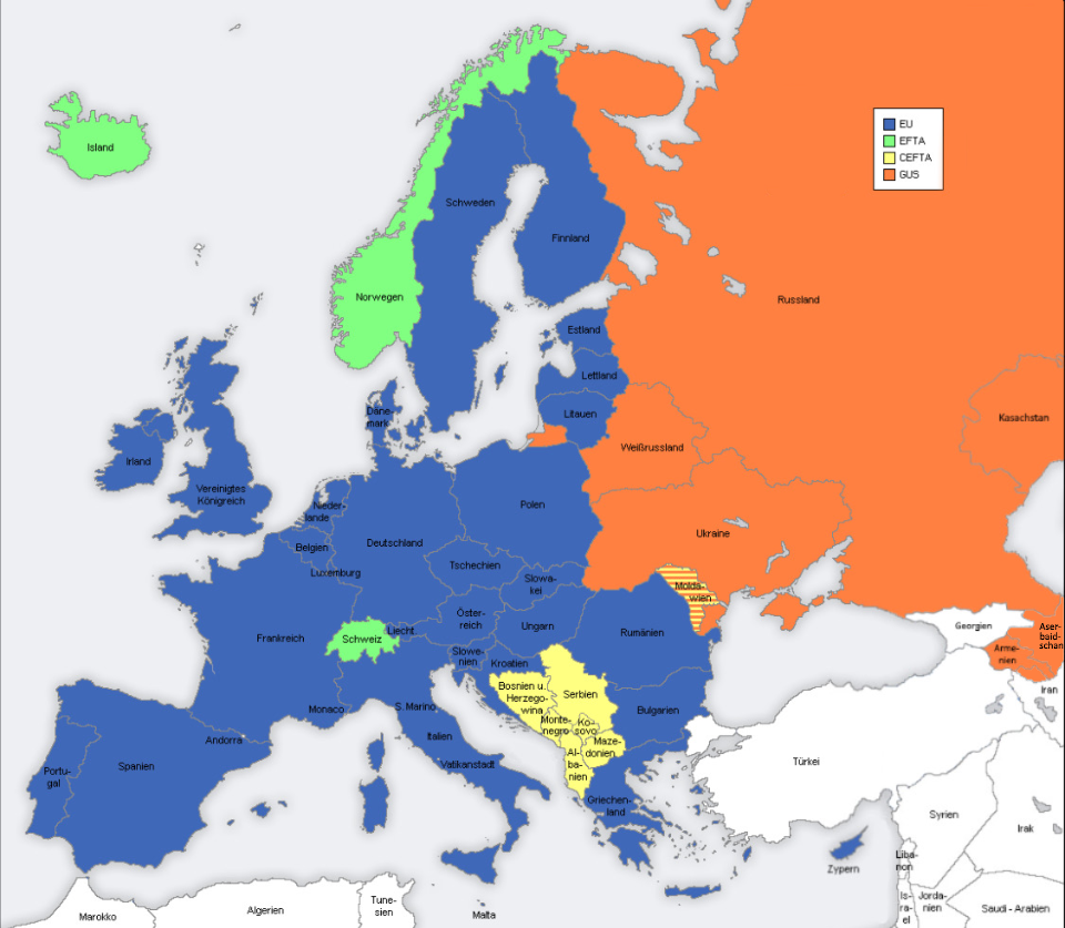 Economic Alliances in Europe in 2013